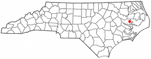 Category:North Carolina Dot Maps